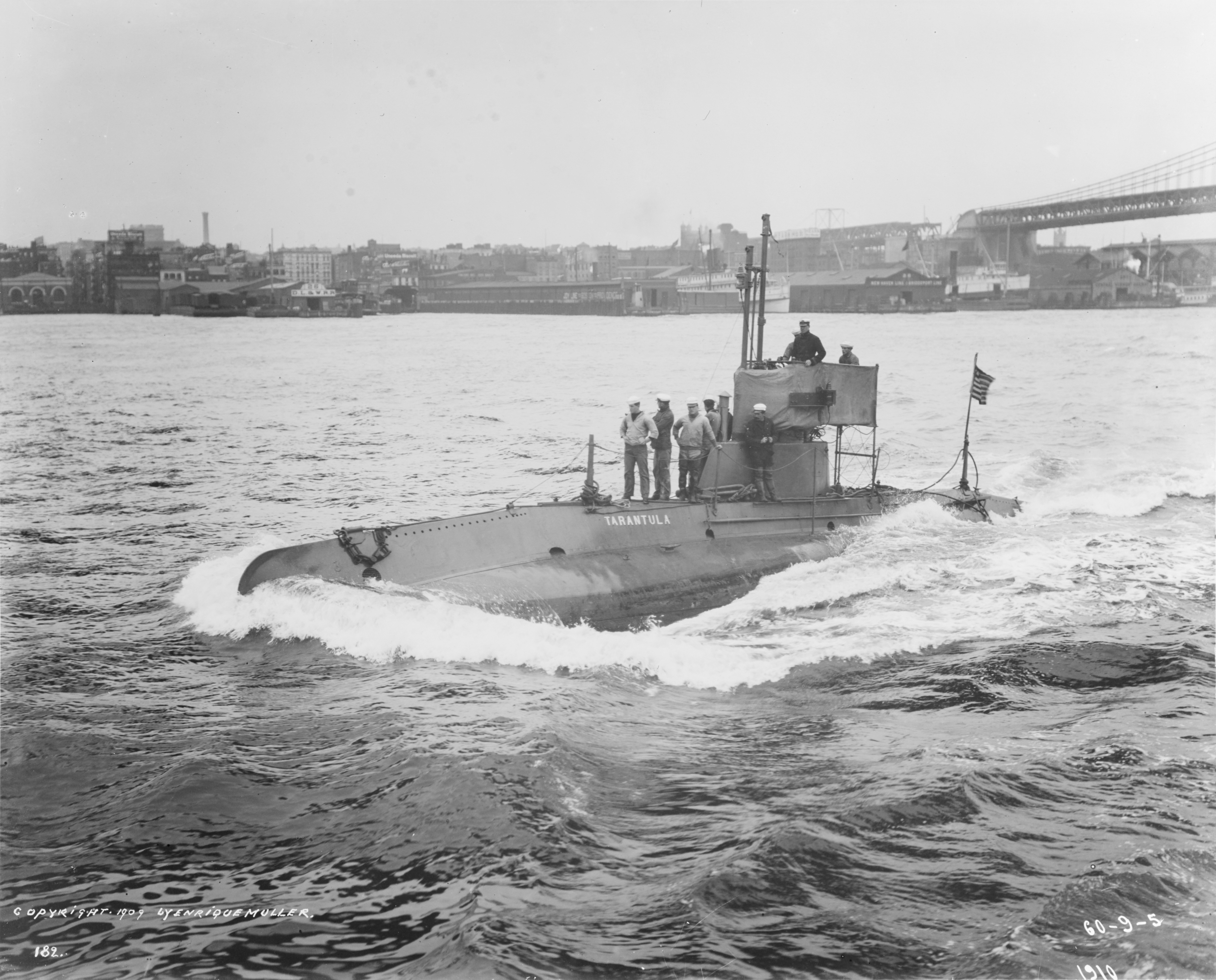 (Submarine # 12) Underway near the New York Navy Yard, 1909. Photographed by Enrique Muller. Photograph from the Bureau of Ships Collection in the U.S. National Archives.